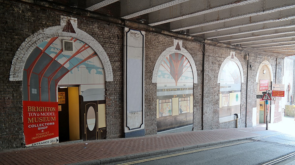 The side of Brighton Toy and Model Museum, Trafalgar Street, Brighton BN1 4EB, as seen from under the station forecourt bridge, with the upper wheelchair entrance at the left and the lower main entrance on the right. The Brighton Belle Mural spans the space in between.